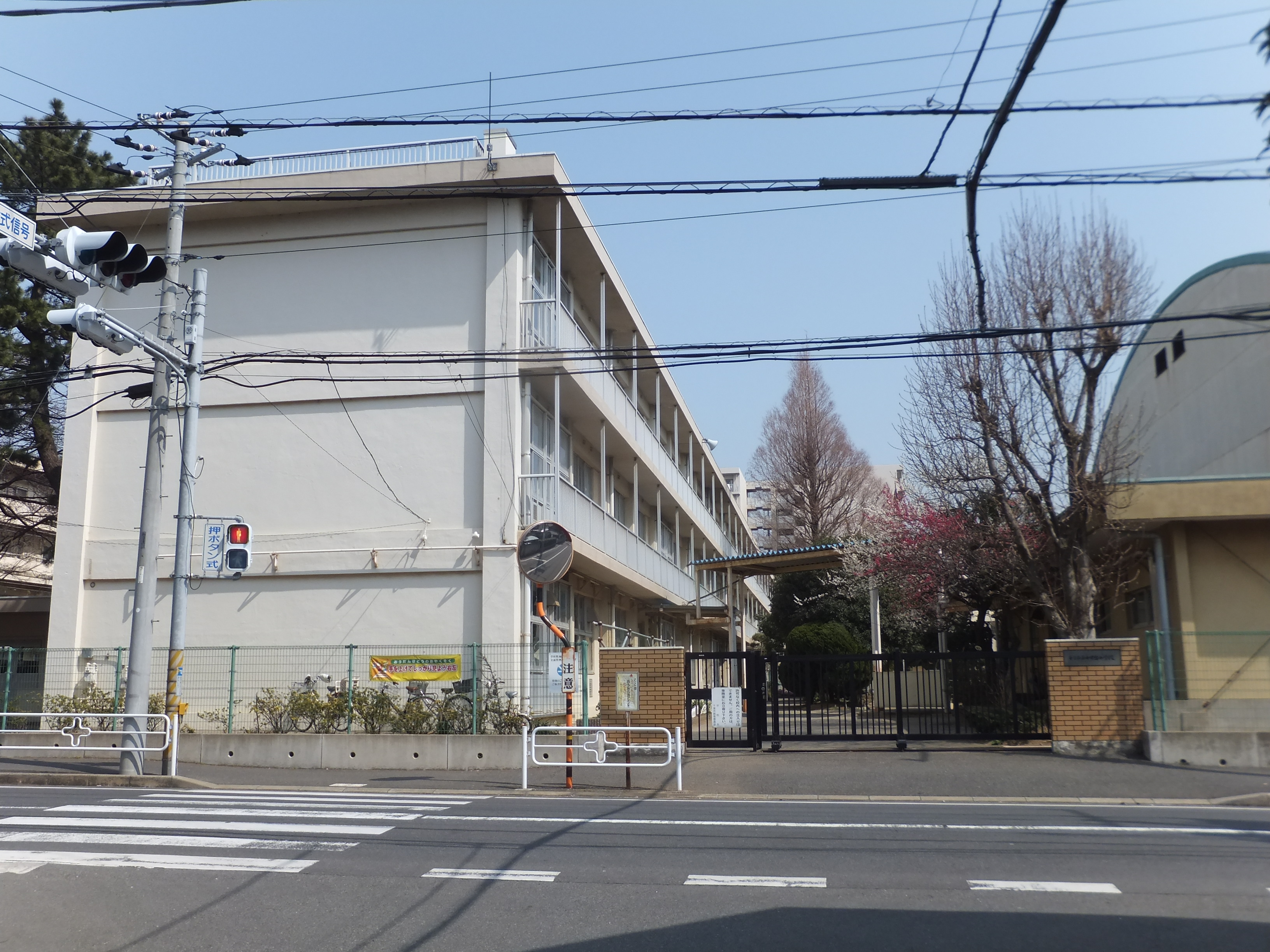 Chiba Municipal Konakadai Elementary School in Inage Ward, Chiba